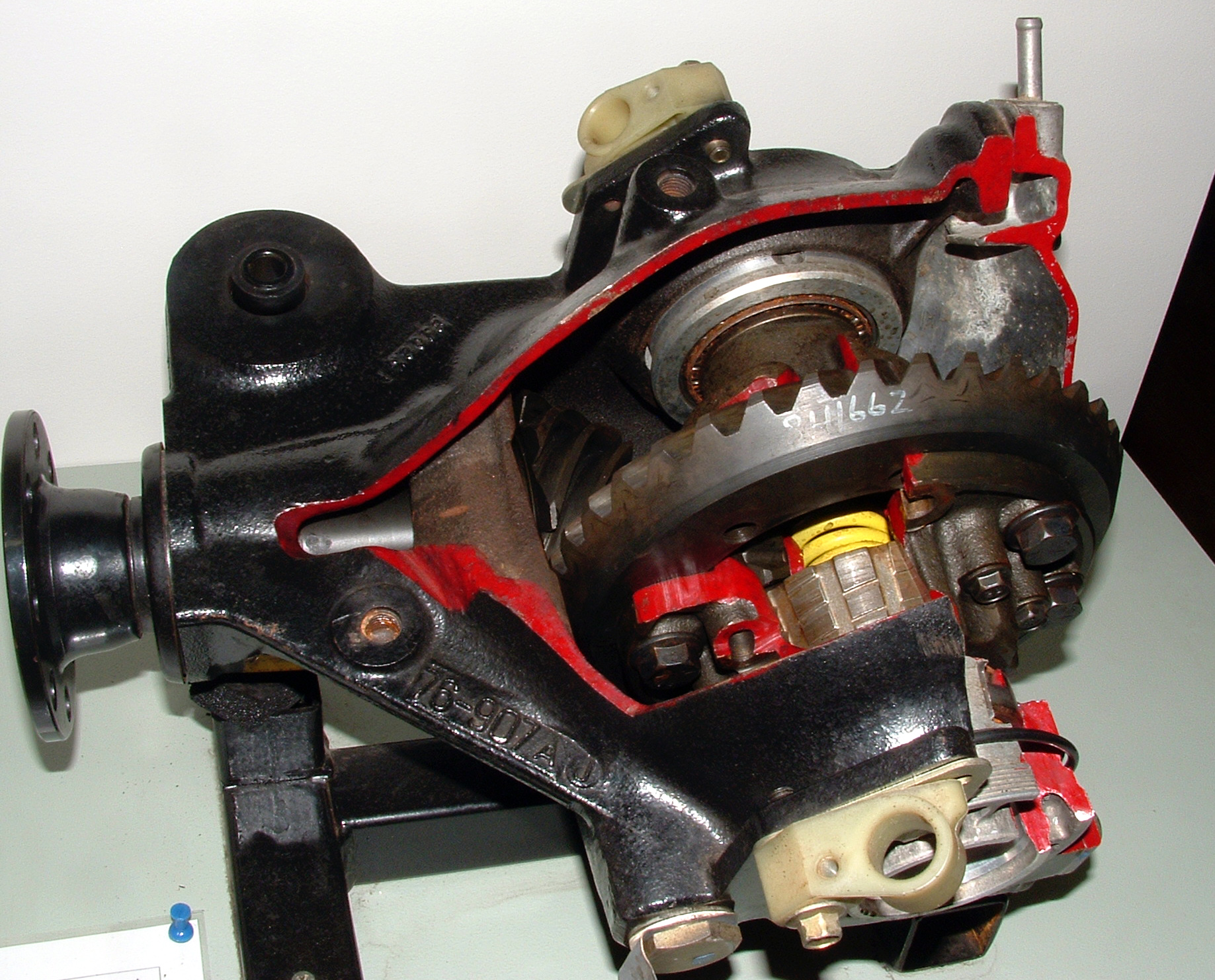 Positive traction differential, with spider gears shown, a limited slip would have a clutchpack instead of a spider gear. From a Ford Falcon (Australia).